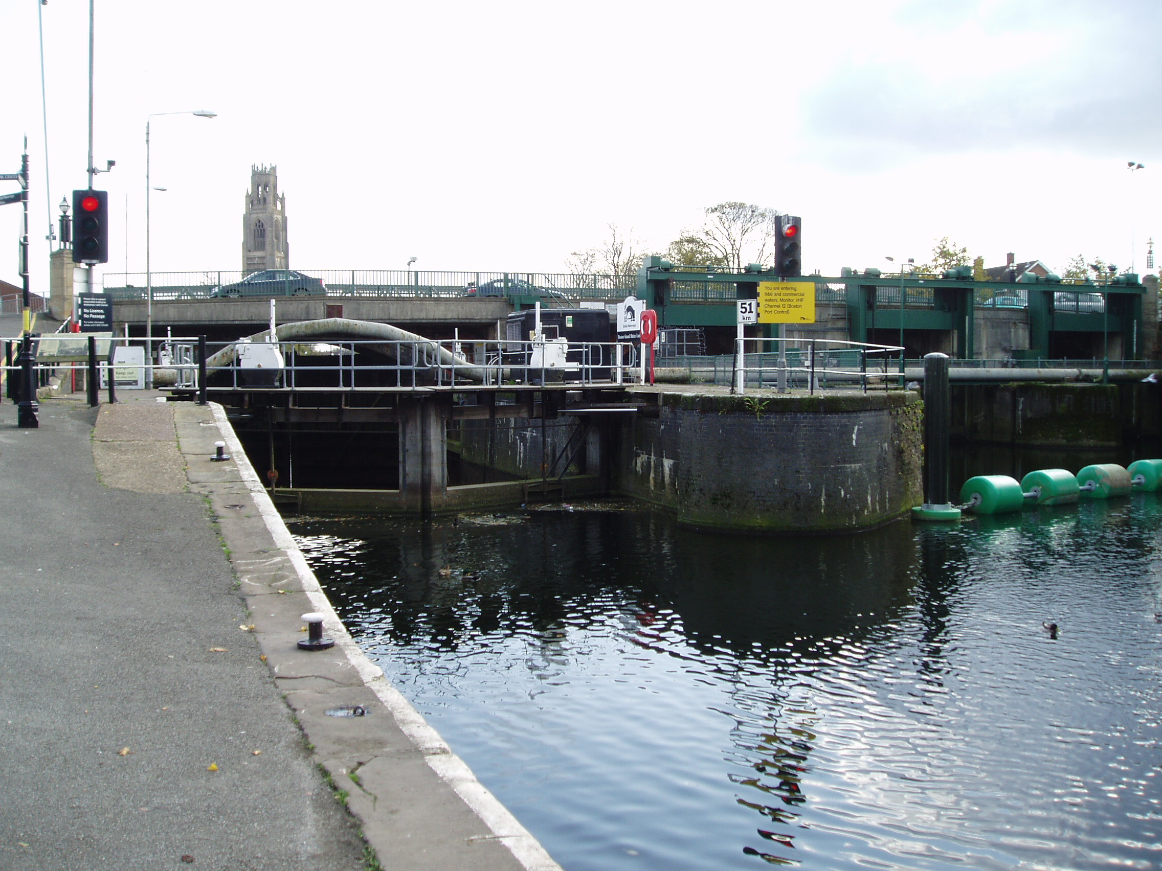 The Grand Sluice lock at Boston, Lincolnshire, where the River Witham empties into The Haven